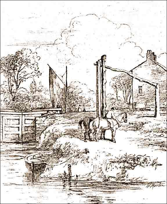 Stickings Lock on the river Irwell, c1850. This print, by W Morten, shows the tail of the lock, which gave access to the cut made in 1832. Two horses, used for hauling Mersey Flats, stand in the foreground and the driver is riding on the leading horse. The tall post is a hauling post, fitted with a roller, that guides the towline around the sharp bend in the river.